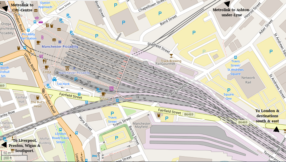 Plan of Manchester Piccadilly station. This map may be incomplete, and may contain errors. Don't rely solely on it for navigation.